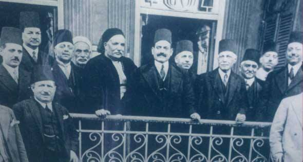 El-Nahhas and Hamad el-Basel Pasha